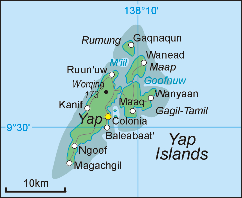 Map of Yap Islands, Yap State, Micronesia. Author: Aotearoa from Poland